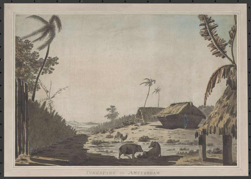 Tongatabu or Amsterdam by William Hodges